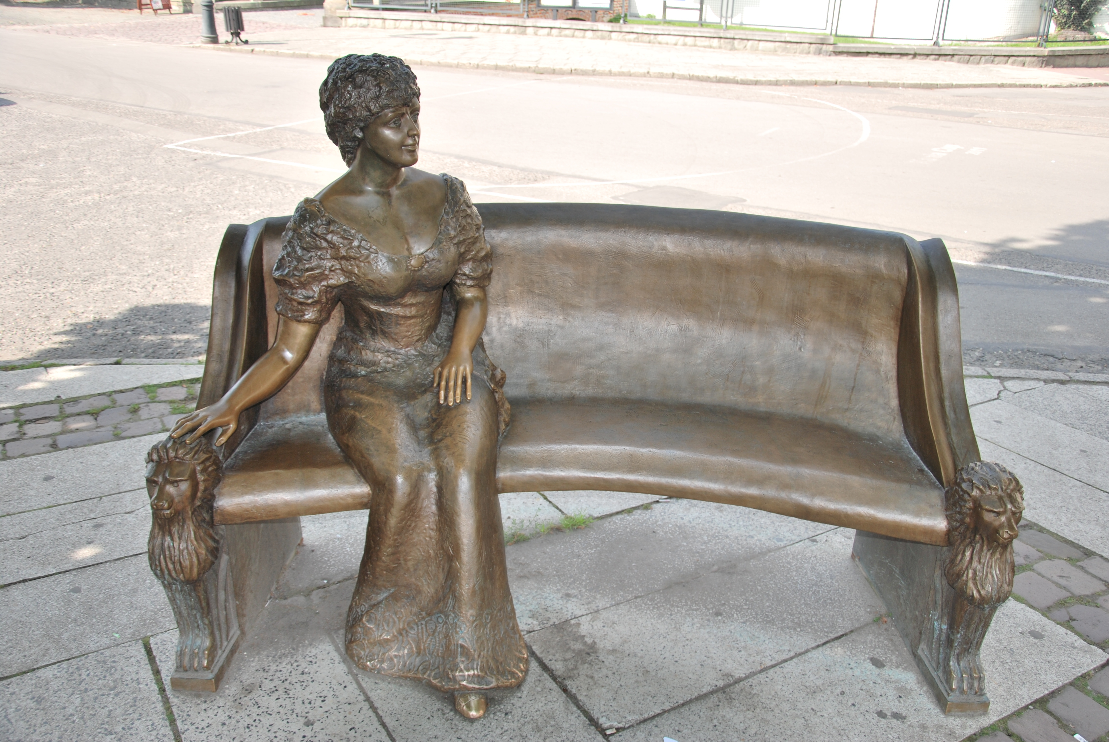 Daisy Princess of Pless bench, Pszczyna